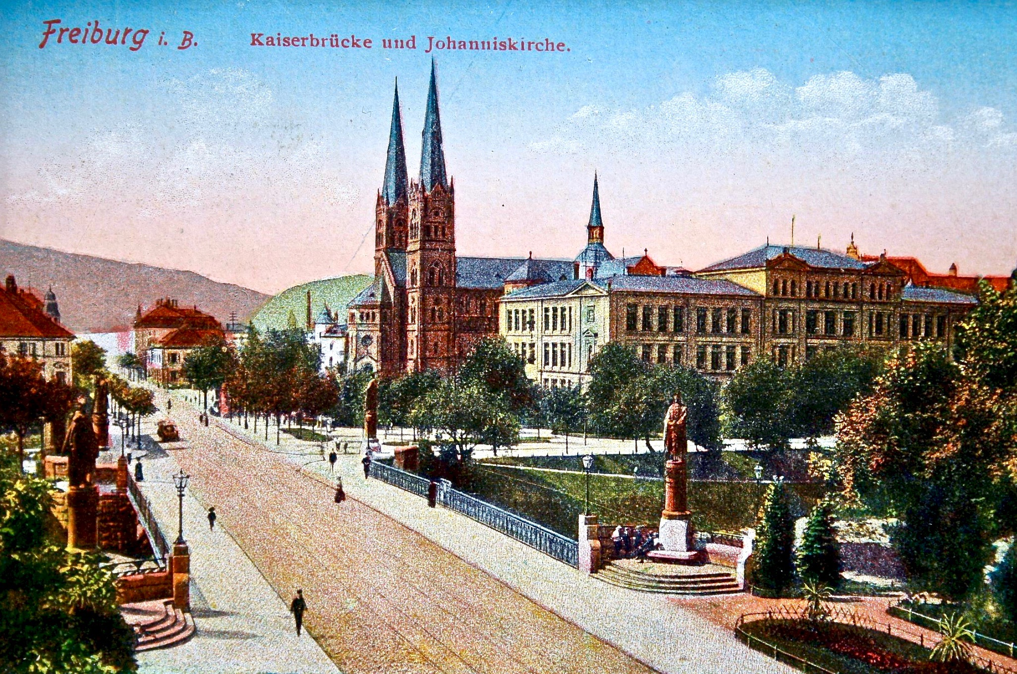 Hand-coloured postcard with a view of Kaiserbruecke, Johannis Church and (on the right) Lessing School.